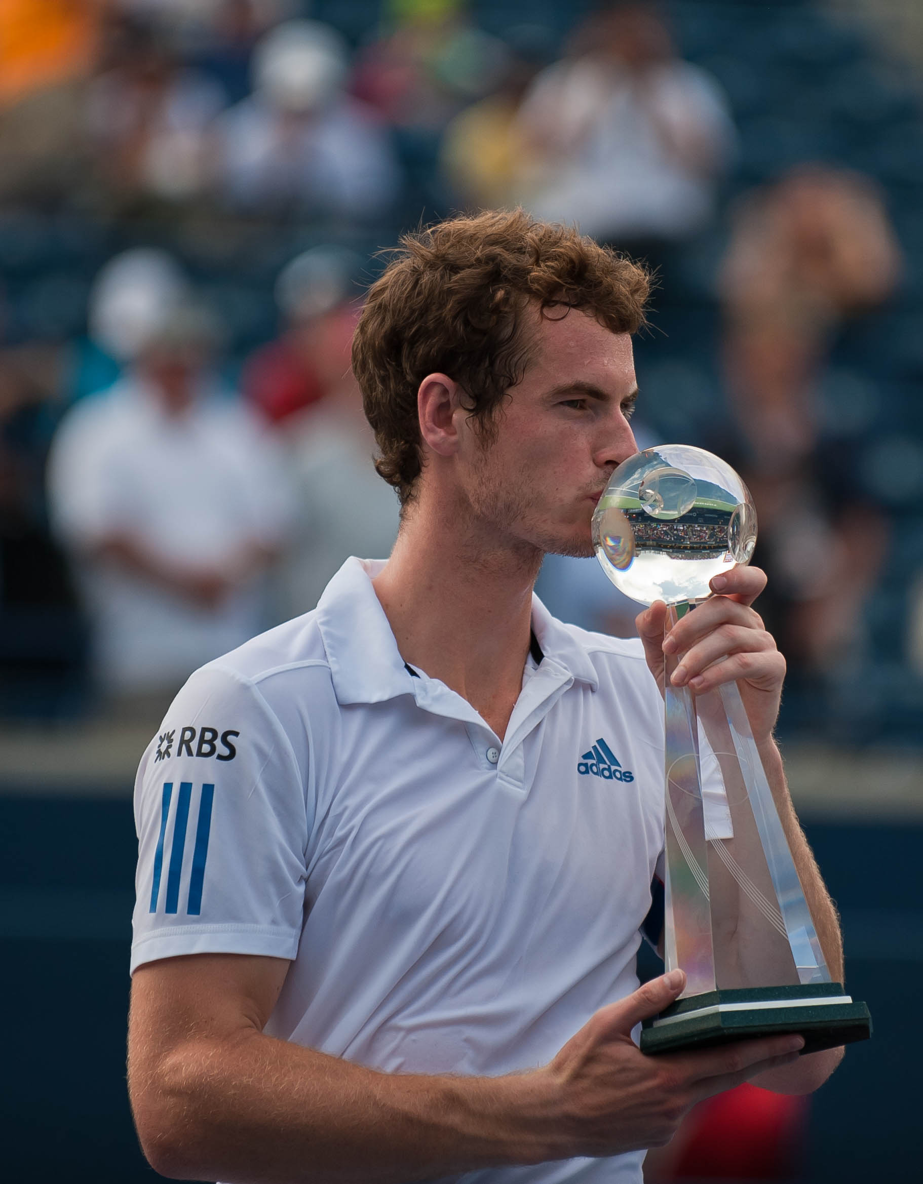 Andy Murray kissing the Rogers Cup trophy.